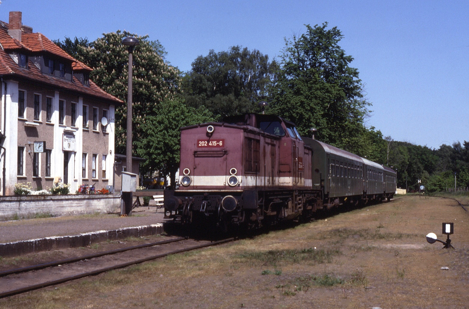 Having run round, 202.415 is ready to work its next service - train 16137, 16:24 Ostseebad Graal-Müritz to Rövershagen. Date taken = 26 May 1992.